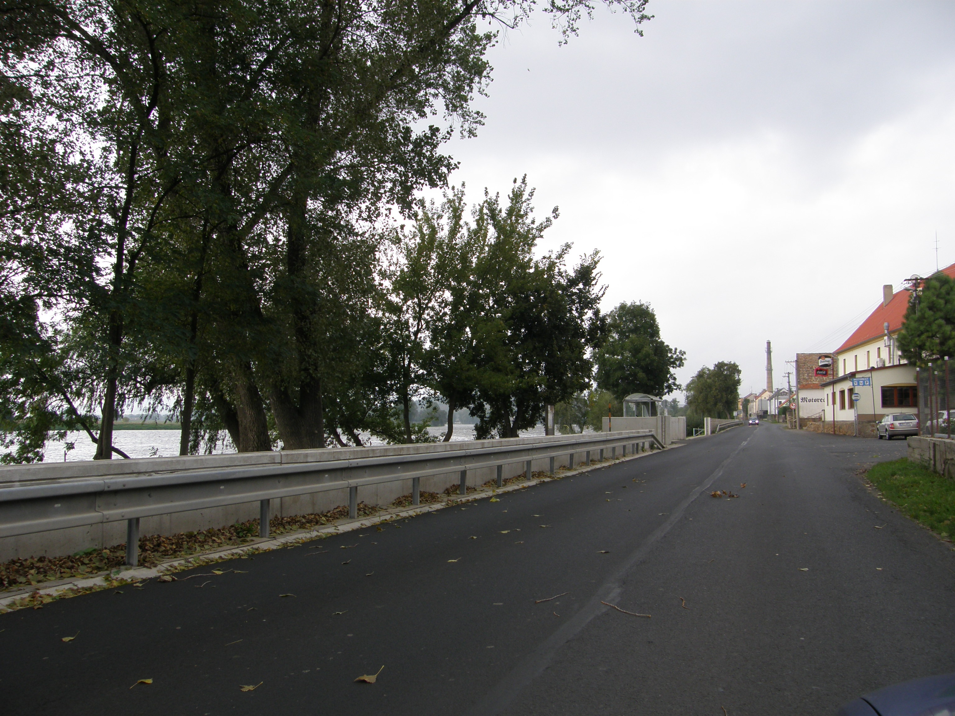 Main road going through the village, The river Labe on the left